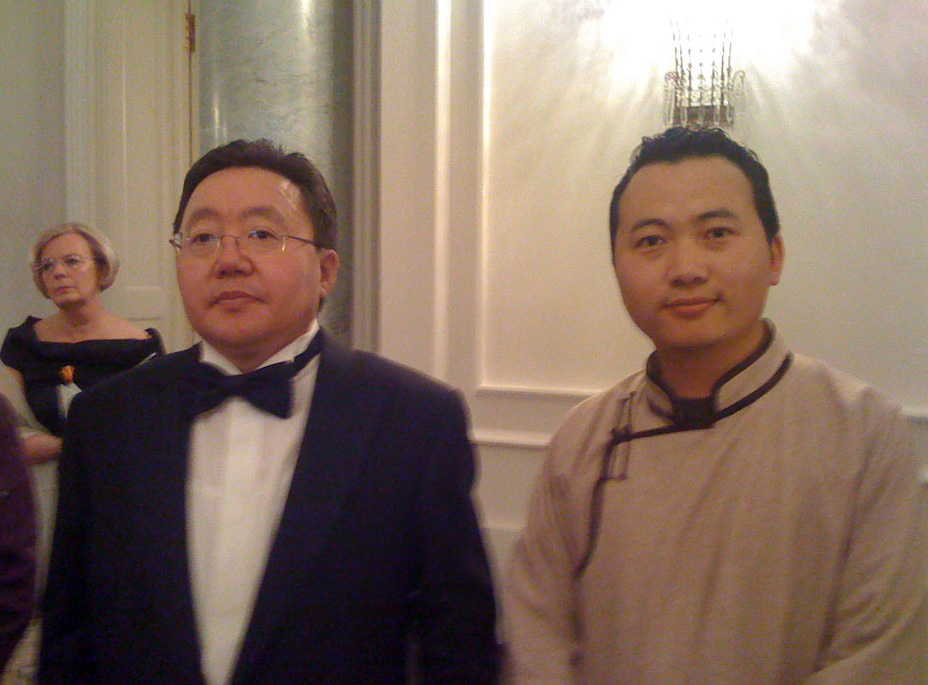 Tsakhia Elbegdorj, President of Mongolia, and Otgonbayar Ershuu, Bellevue Palace Berlin, 29.03.2012